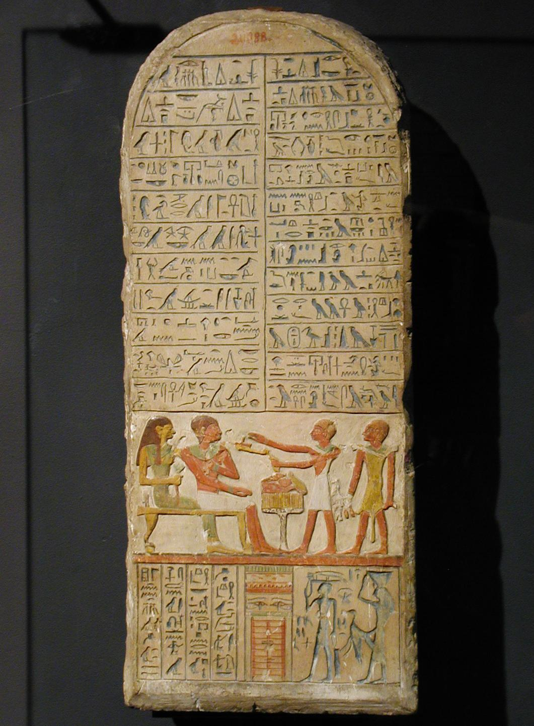 Limestone stele of Nemtyemhat, a high official of pharaoh Mentuhotep II, and his wife. The stela was found in the northern necropolis of Abydos, and mentions the mortuary temple of Mentuhotep II: . Middle Kingdom. Formerly in Cairo Museum, (CG 20088), now in the National Museum of Alexandria. [refs: [1]; Jürgen von Beckerath, Handbuch der Ägyptischen Königsnamen (1999), pp. 78-79.] other versions